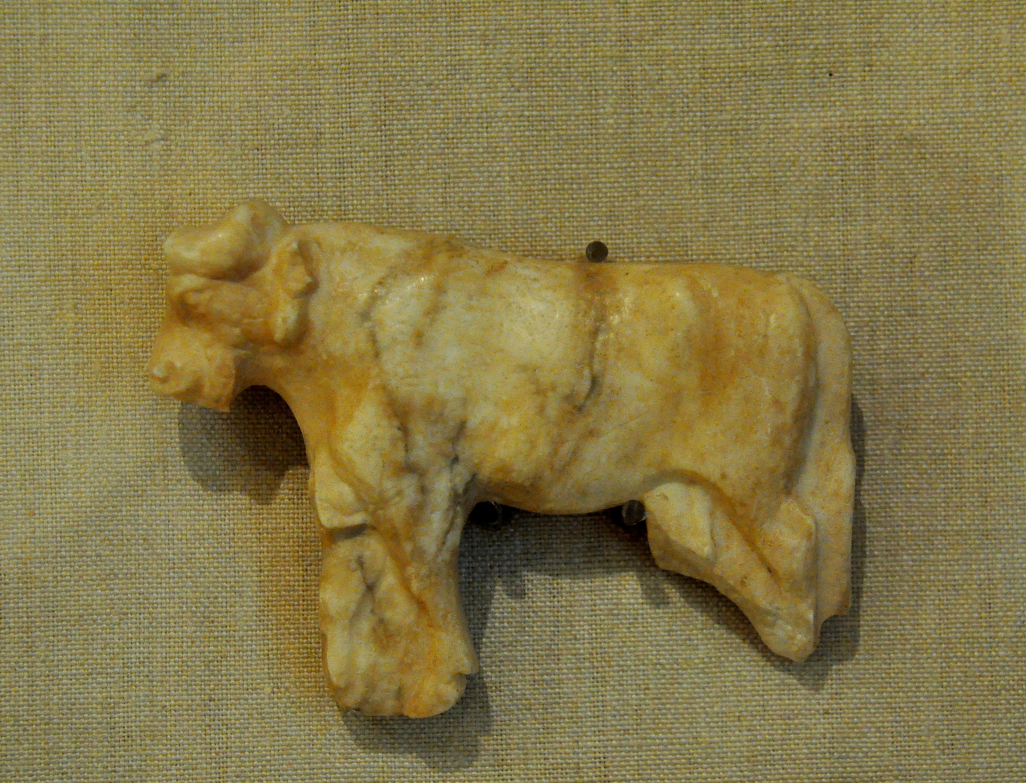 Alabaster bull inlay. From southern Iraq, Early Dynastic Period, c. 2750-2400 BCE. The Burrell collection, Glasgow, UK.